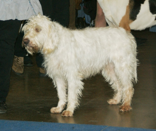 A Medium Griffon Vendéen. Colour: white.